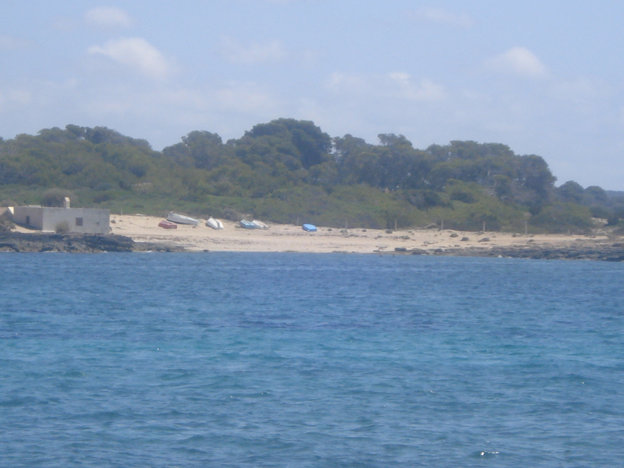 Ca'n Curt beach, Ses Salines (Mallorca)